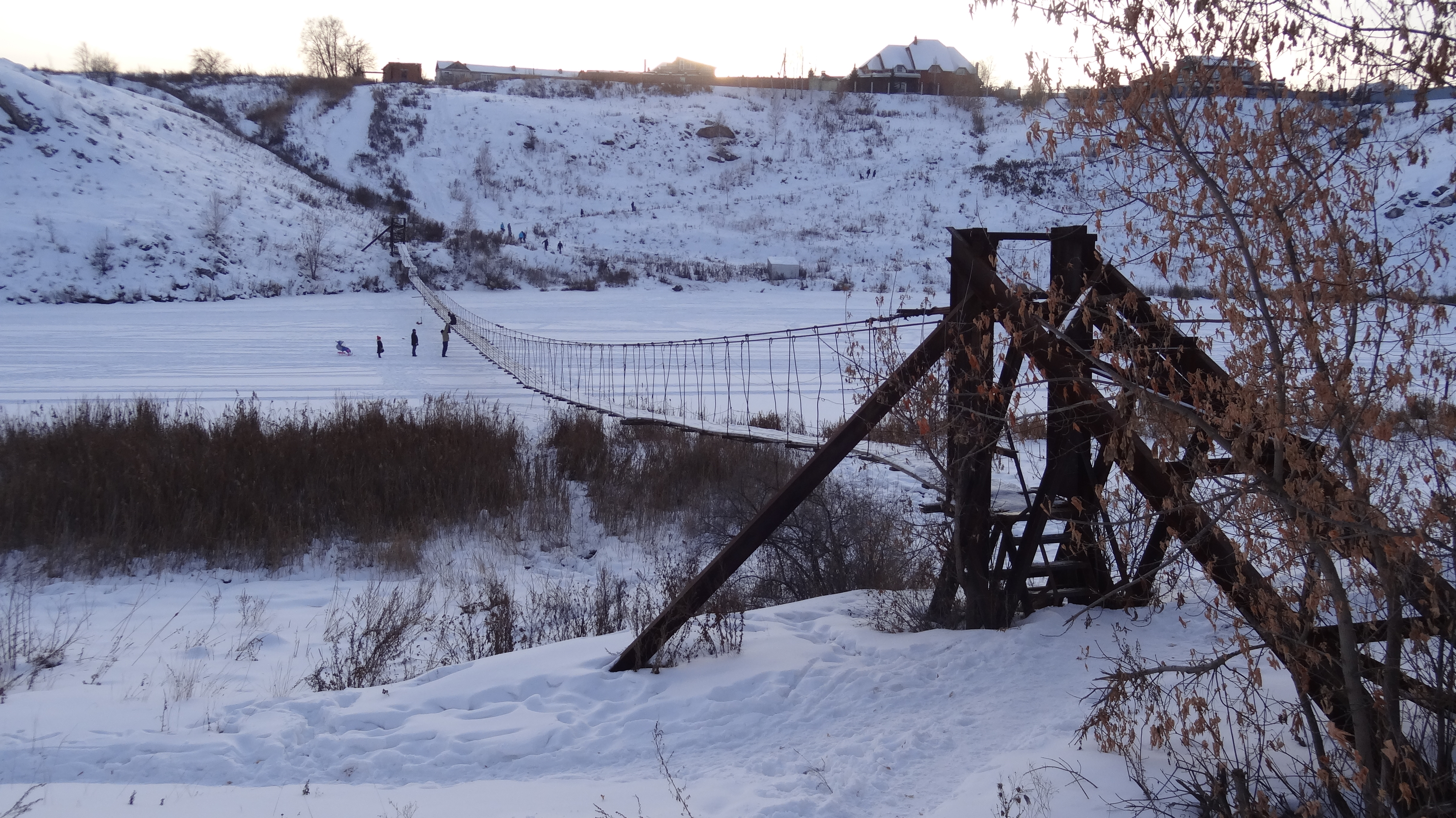 Martush-Kamensk bridge in Kamensk district, Sverdlovsk Oblast, Russia.